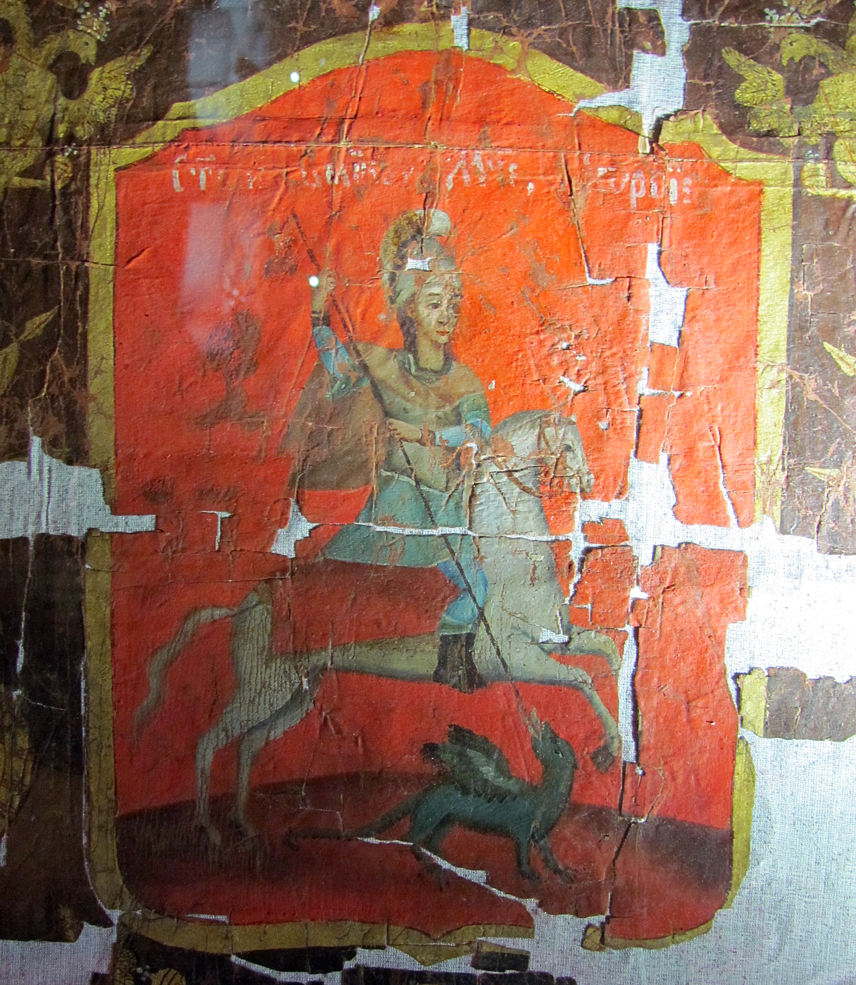 Saint George (from Karađorđe's flag), Historical Museum of Serbia